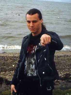 A photo I took myself of Chuck when we first arrived in Scotland on the InHuman Tour of the World. We had got off the tour bus to stretch our legs a little while after getting off the ferry from Larne, Northern Ireland.